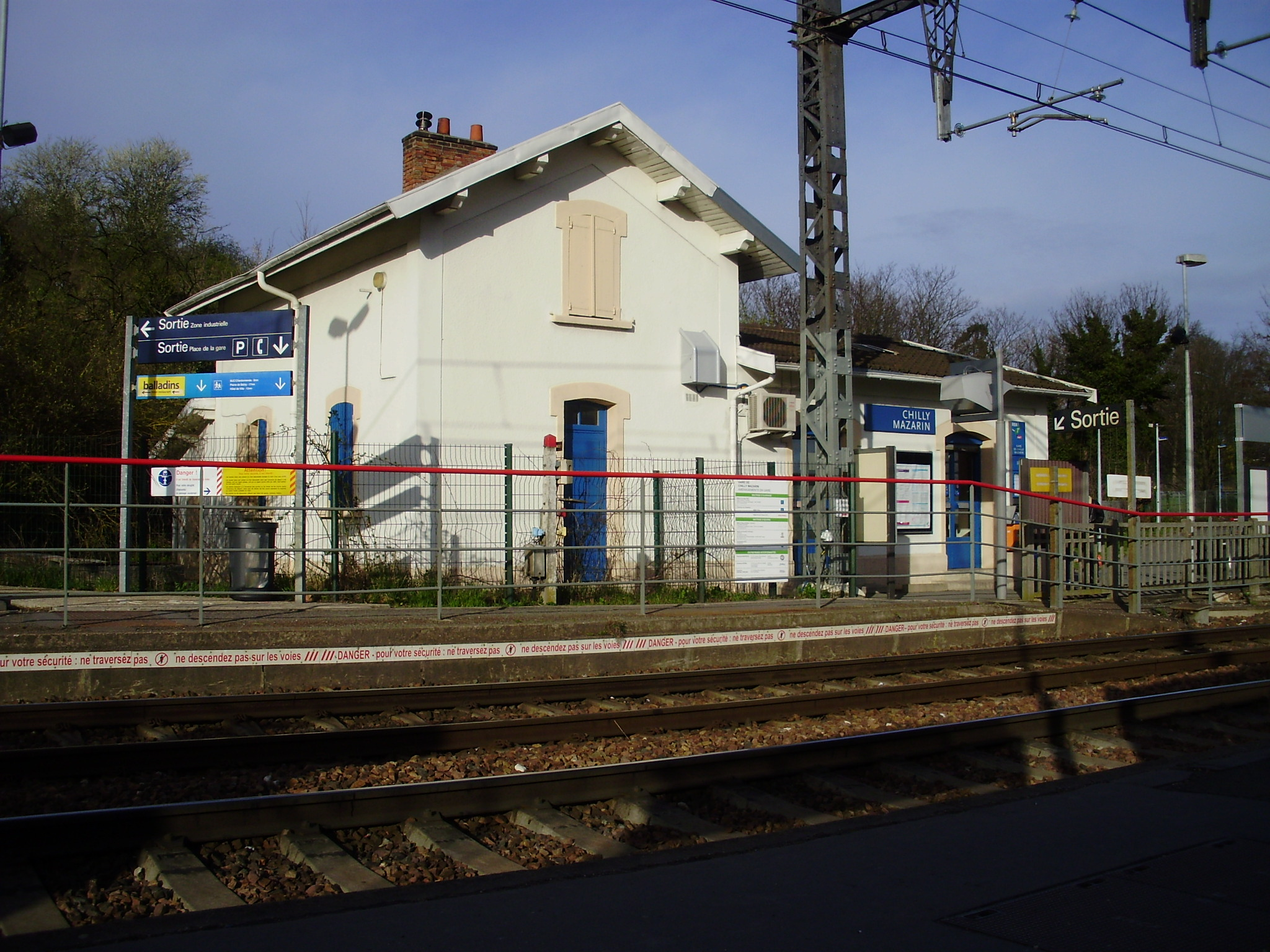 Chilly-Mazarin station, Essonne, France